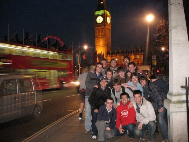 The University of Midnight Ramblers on tour in London, England. In front of Big Ben, Spring 2007